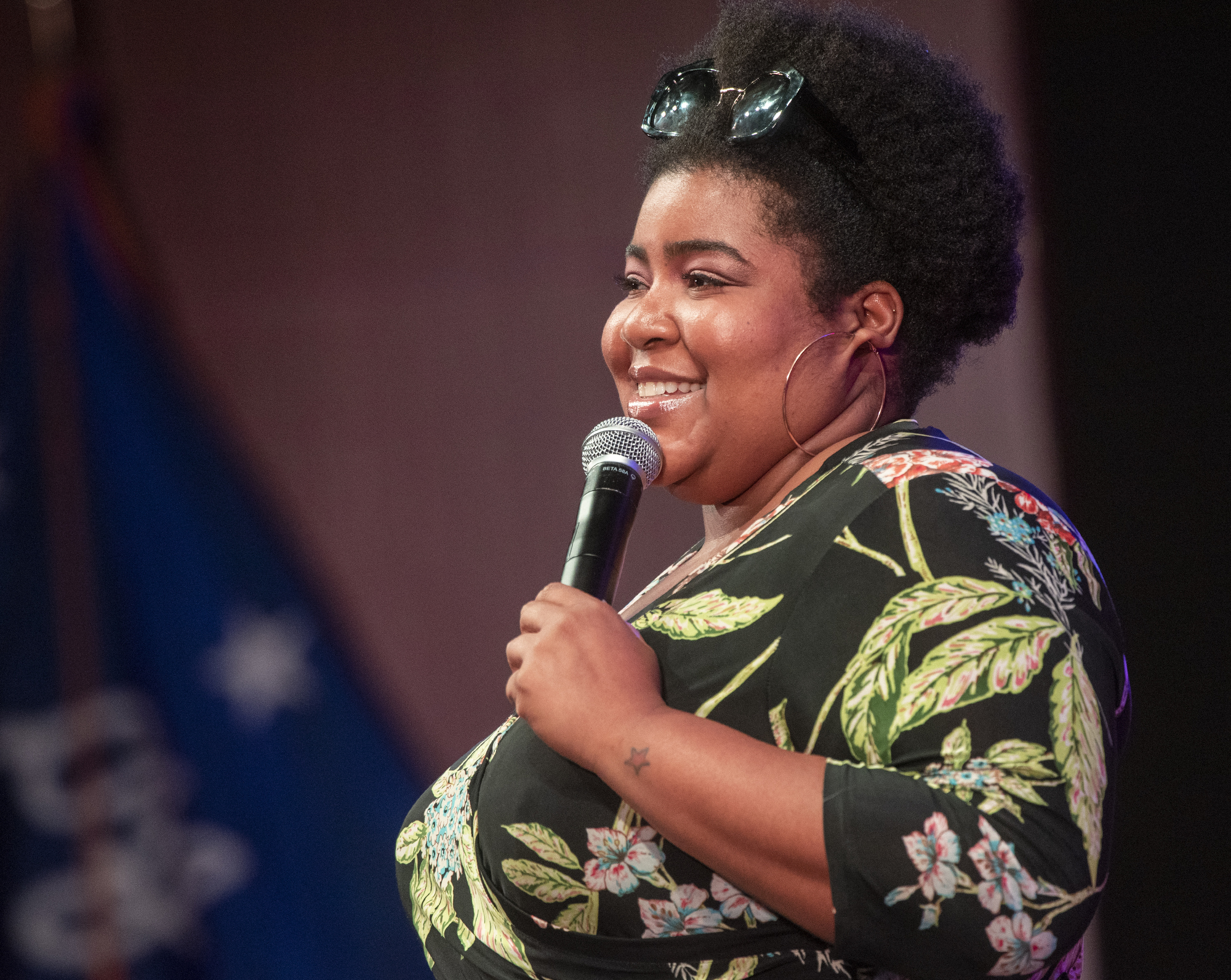 Dulcé Sloan, comedian and correspondent for The Daily Show, performs stand up comedy at The Summit on Race in America at the LBJ Presidential Library on Wednesday, April 10, 2019.